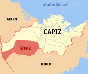 Map of Capiz showing the location of Tapaz